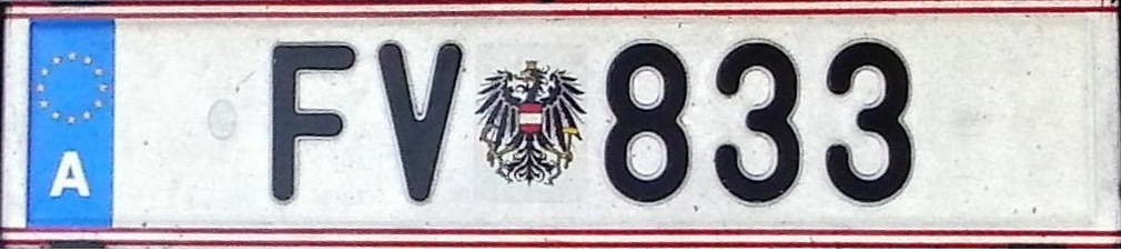 License plate of the Financial Police of Austria